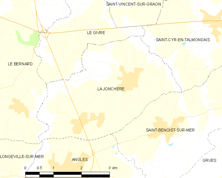 Map of French municipality La Jonchère